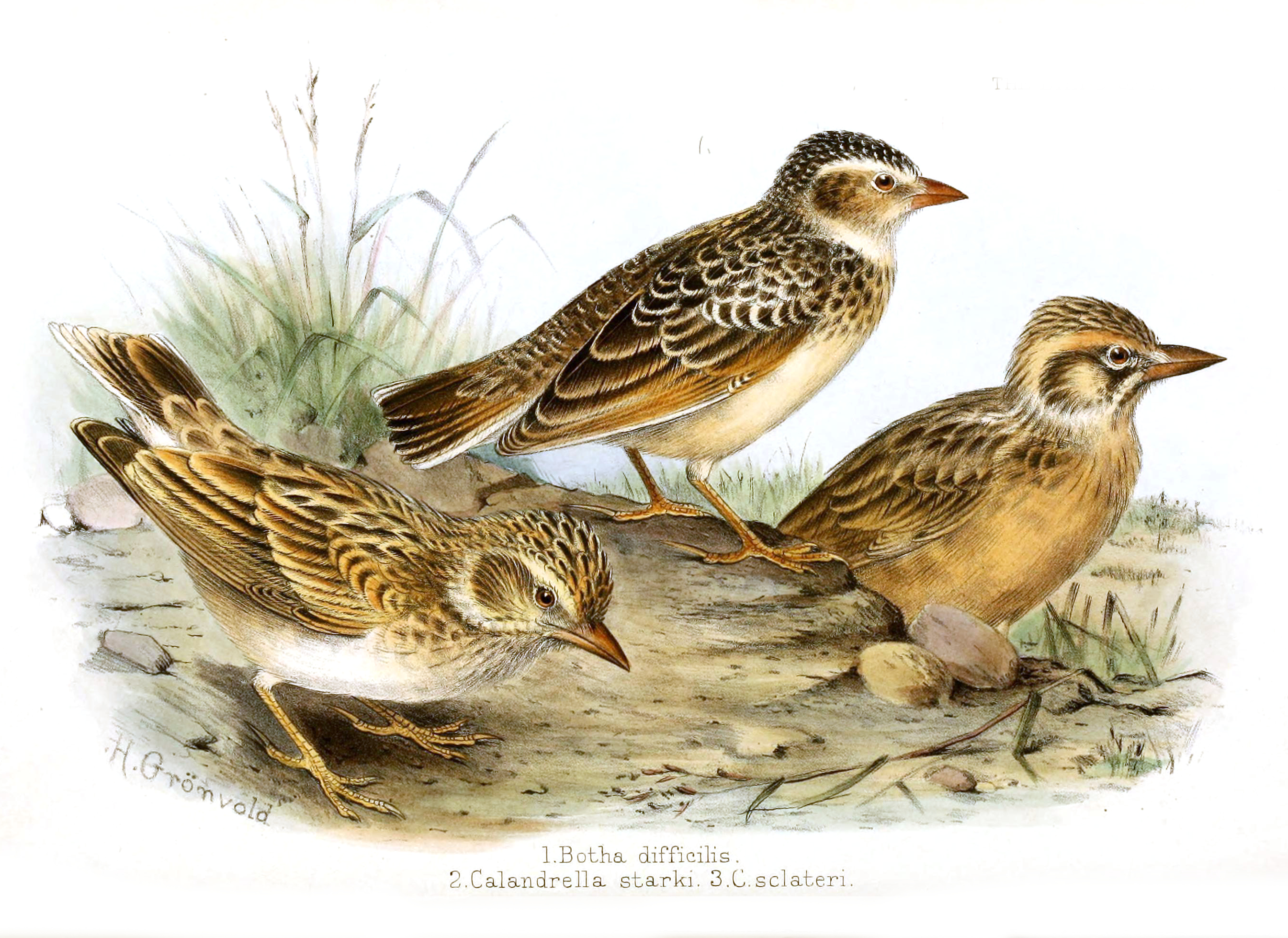 Juvenile S. fringillaris (top), adult S. starki (left) and S. sclateri (right)